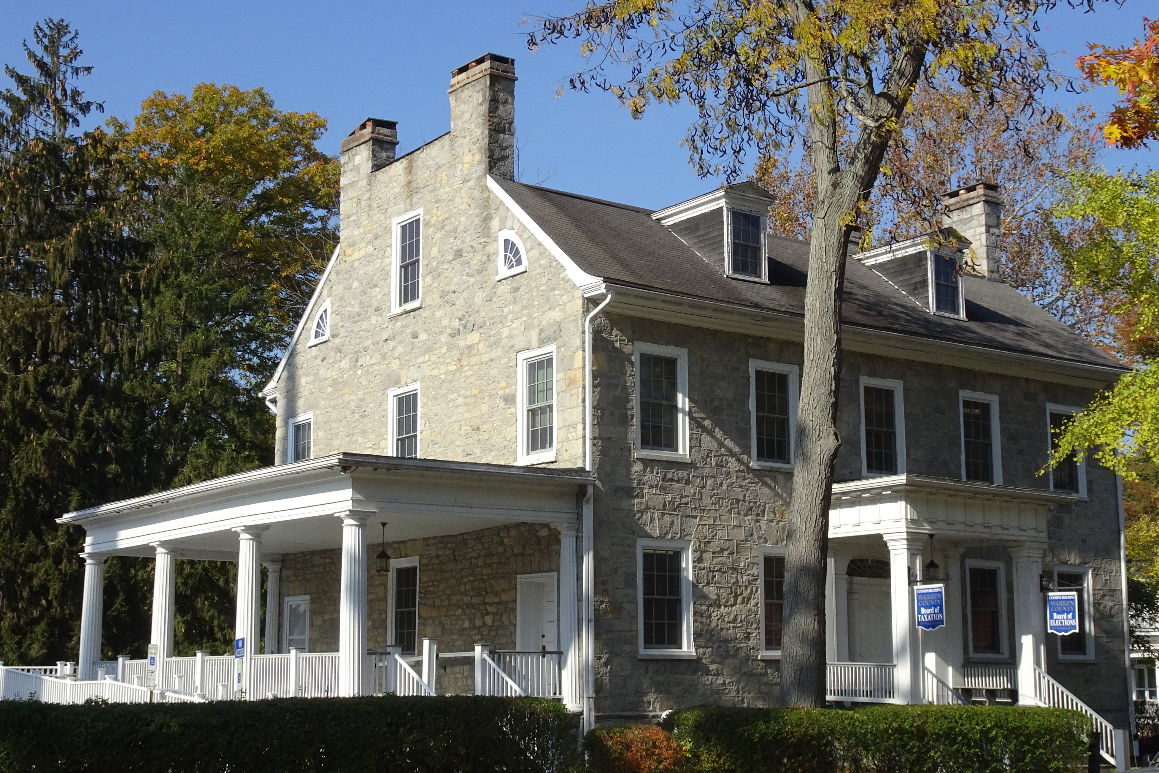 The Maxwell-Robeson-Cummins House in Belvidere, New Jersey. Georgian architecture. Built in 1834 using limestone from a local quarry. Contributing property #182 of the Belvidere Historic District.